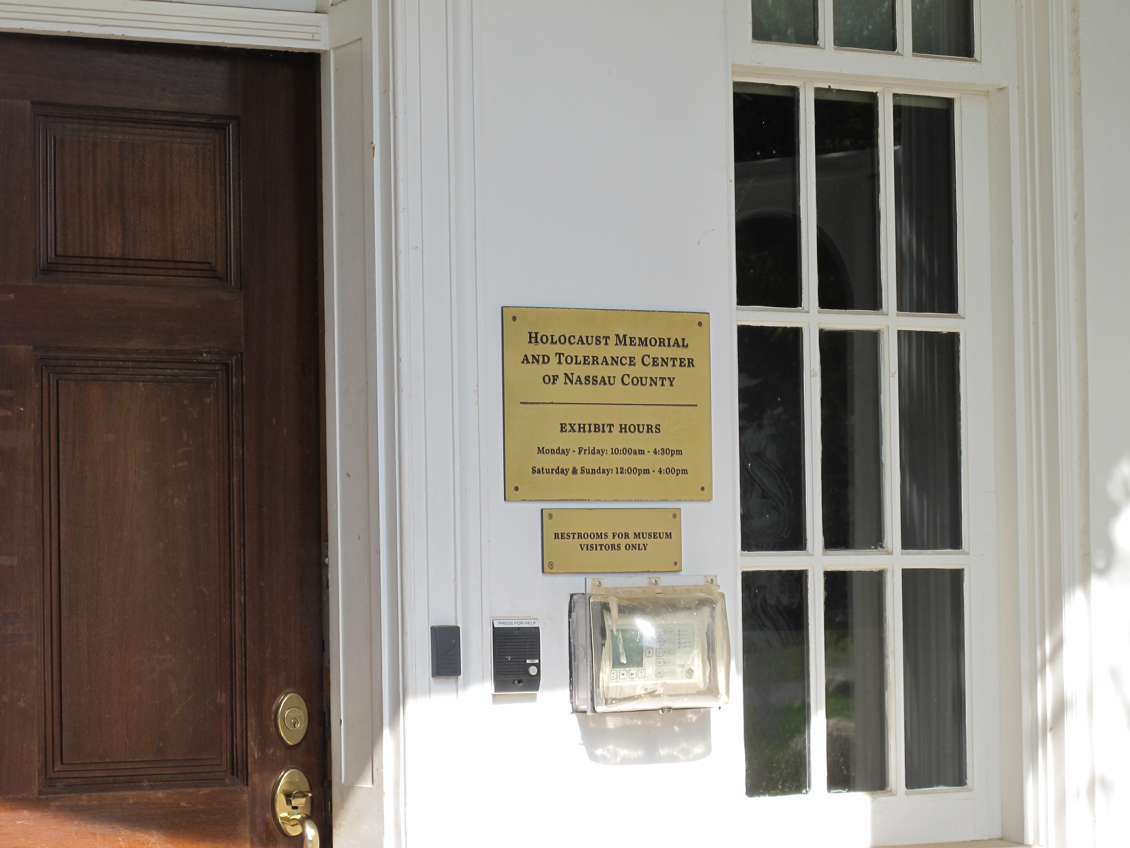 The doorway of the Holocaust Museum and Tolerance Center of Nassau County, in the mansion of the Welwyn estate at Glen Cove, Long Island, New York State, US